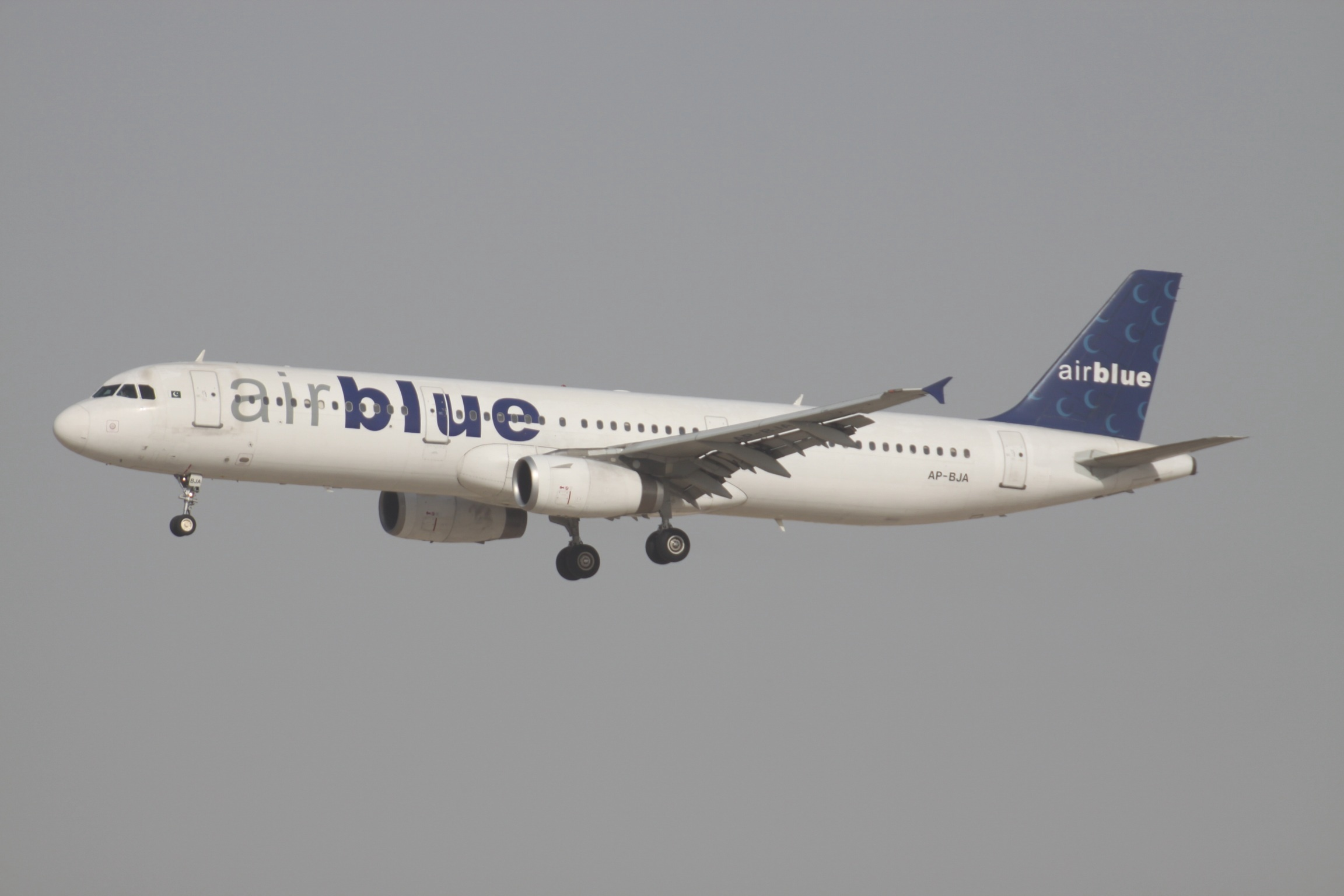 At Dubai International DXB